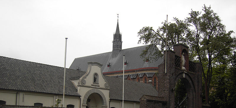 St-Benedict abbey in Achel